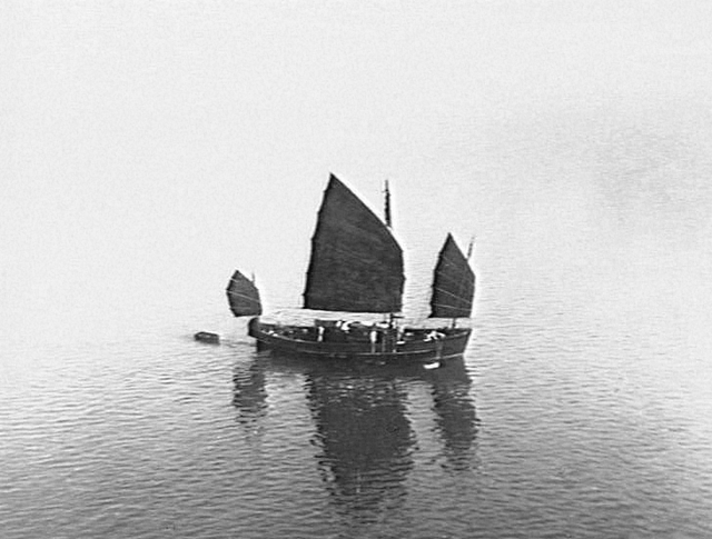 HMAS Tiger Snake in Darwin, Northern Territory, 4 February 1945.